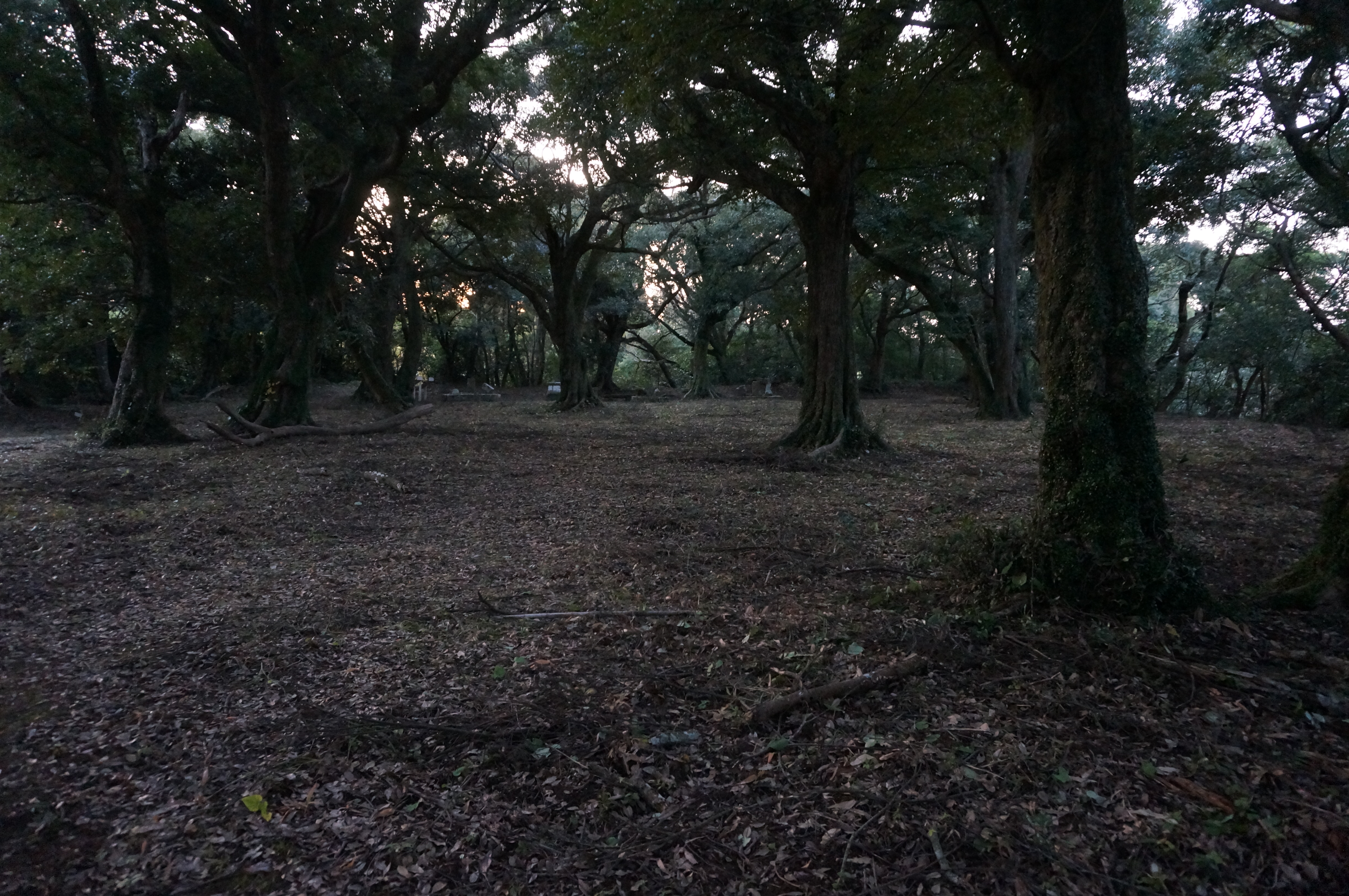 Izaku Castle Kame jiro